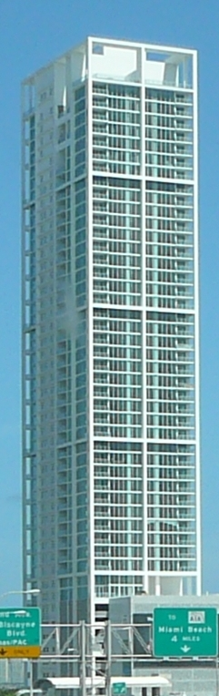 10 Museum Park in Miami, Florida Oct 2006.